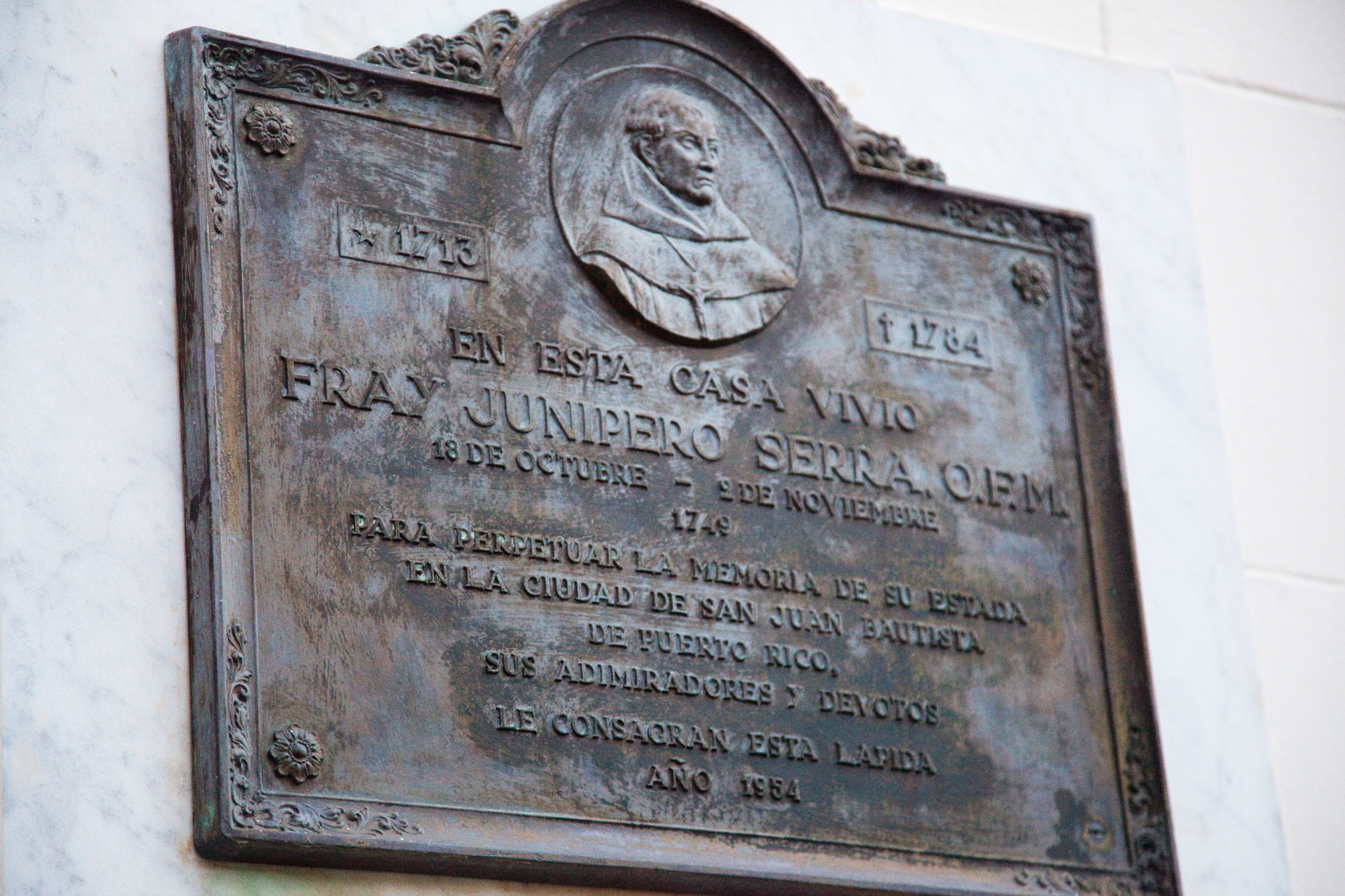 Plaque stating Junípero Serra lived in this house in San Juan Bautista, Puerto Rico